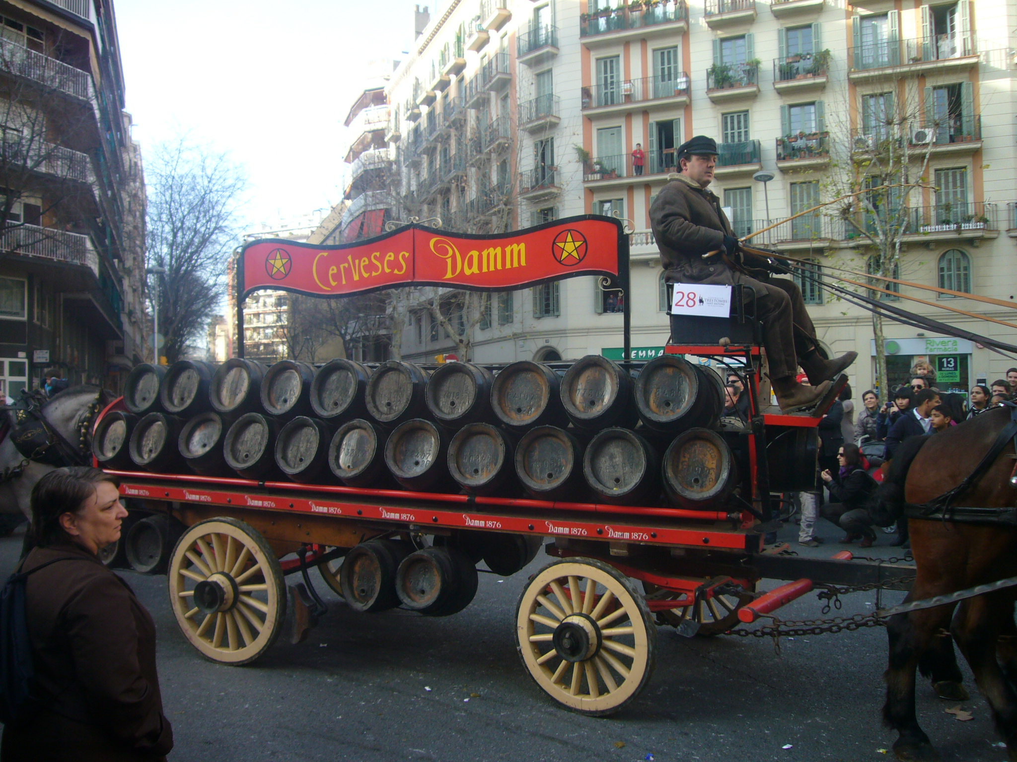 Tres Tombs festival in Sant Antoni neighborhood, Barcelona, January 21, 2012